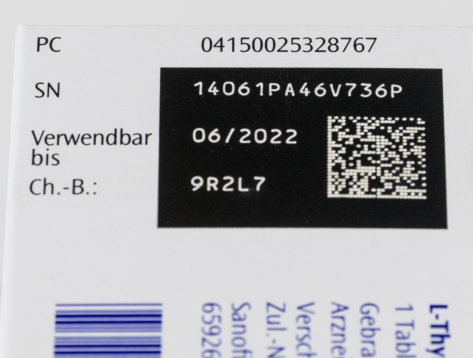 L-Thyroxin Henning 200 by Sanofi-Aventis with Epedigree